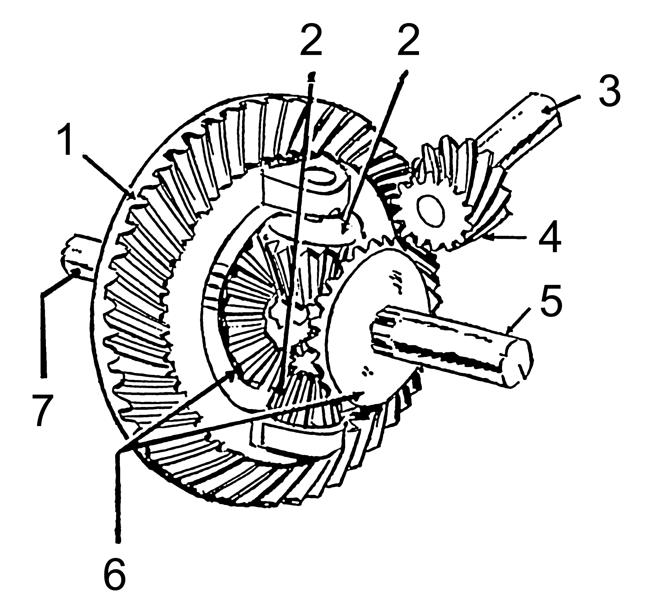 Line art diagram of a differential gear. Ring gear Pinions Drive shaft Drive pinion Axle Side gears Axle